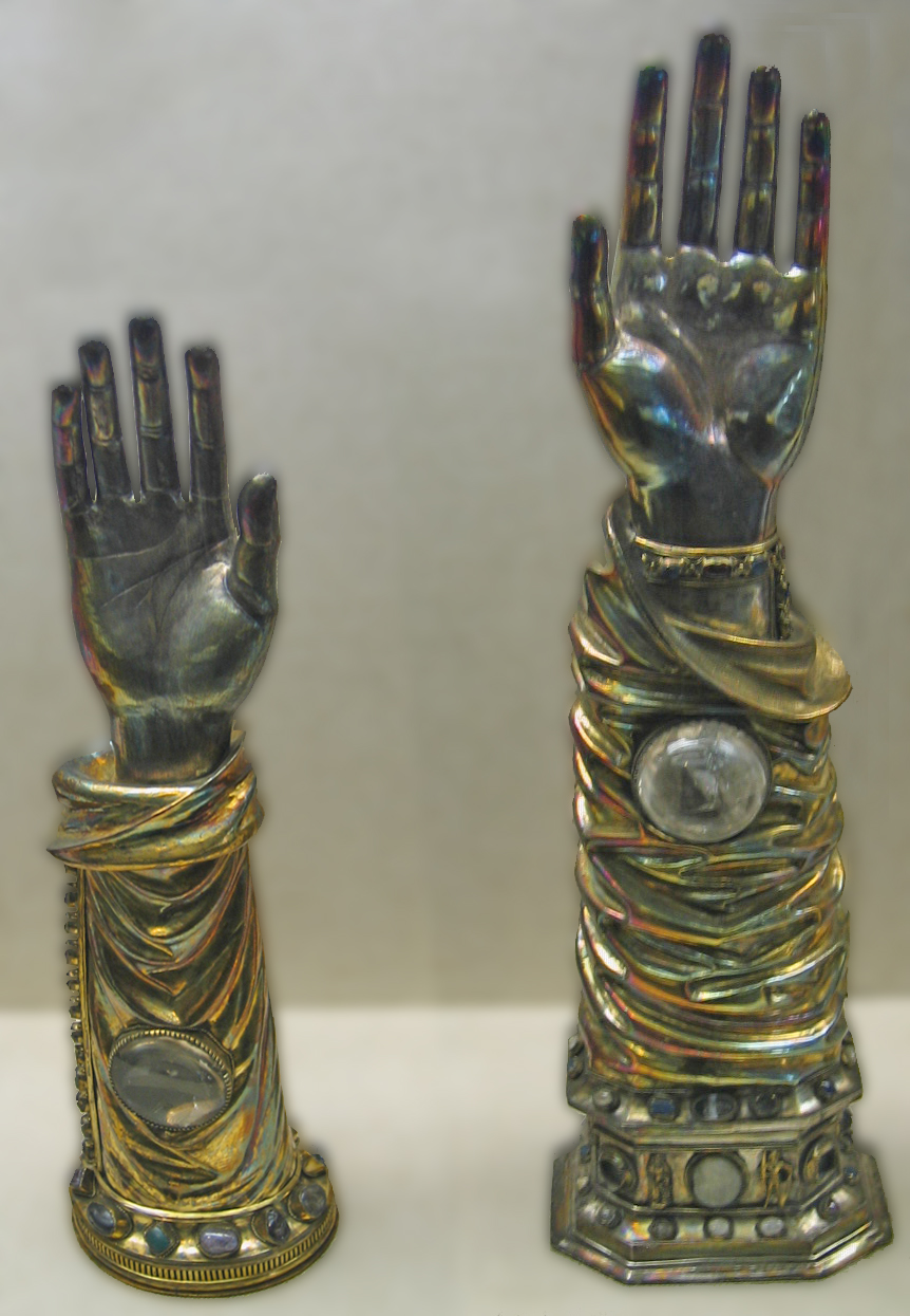 Cathedral in Minden, District of Minden-Lübbecke, North Rhine-Westphalia, Germany.